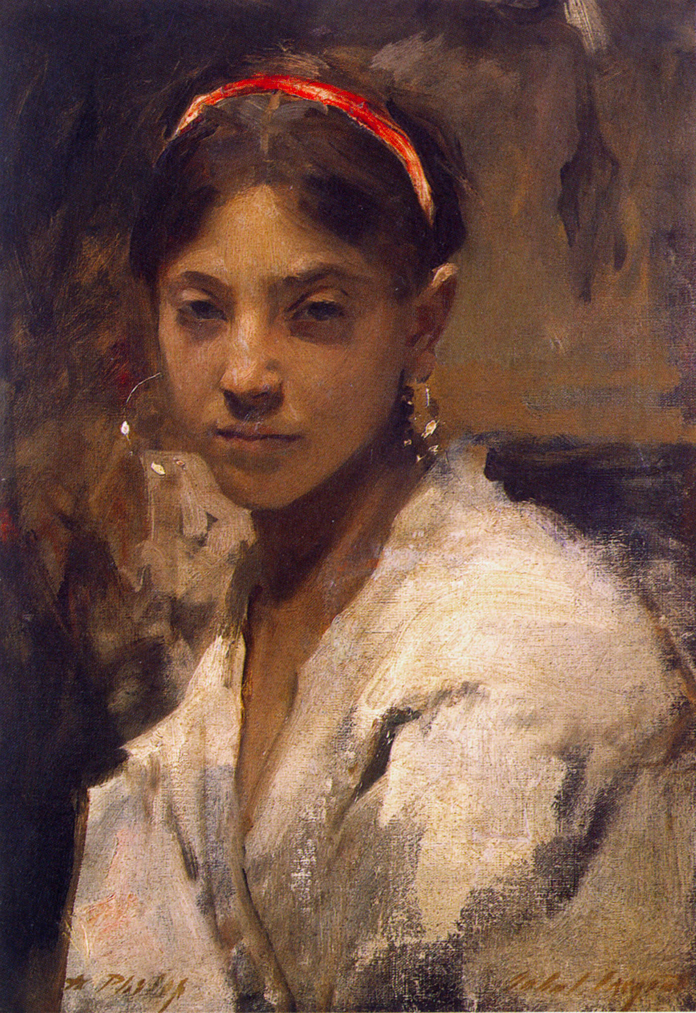 Head of a Capri Girl; some think that this is Rosina Ferrara